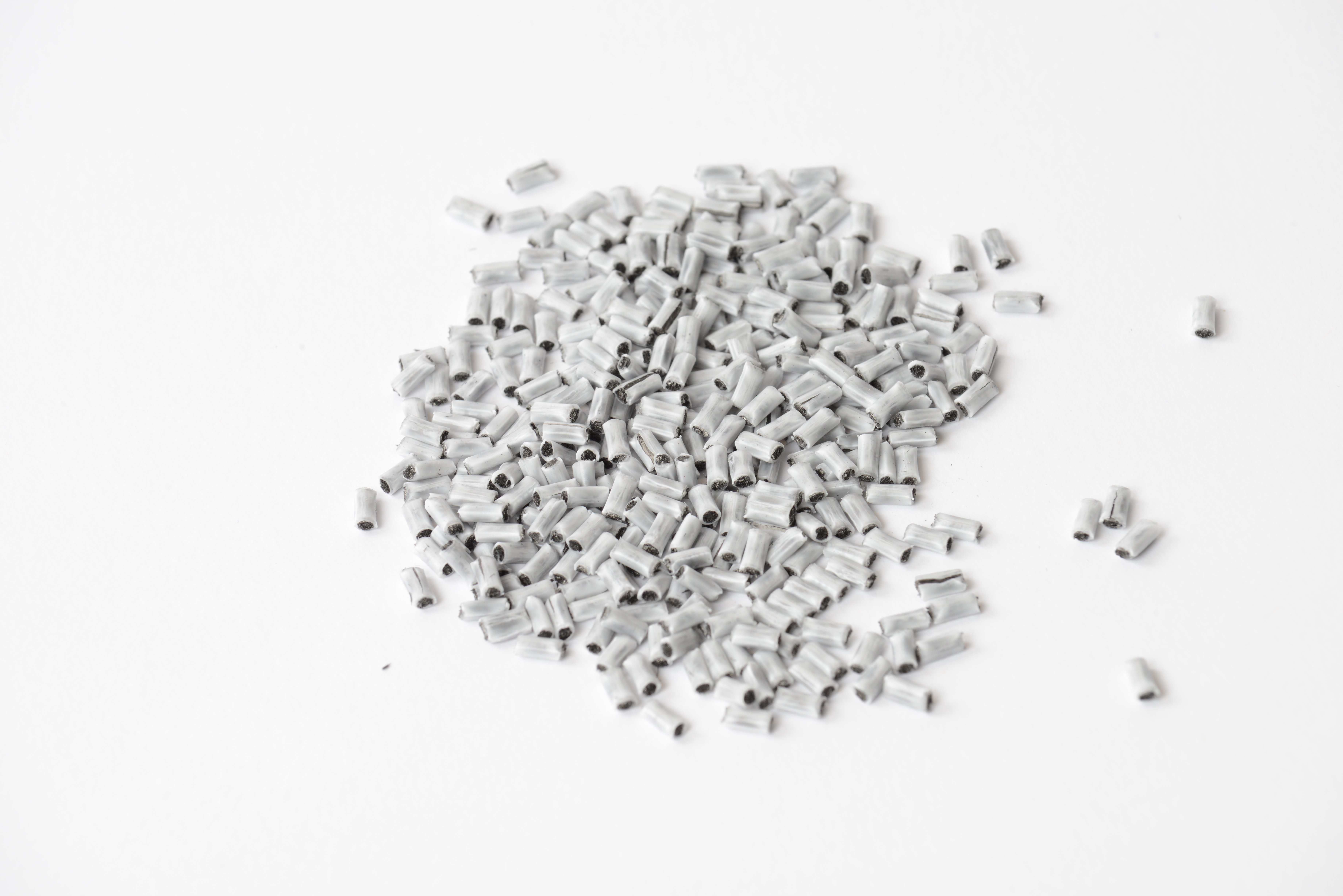 CP fibers